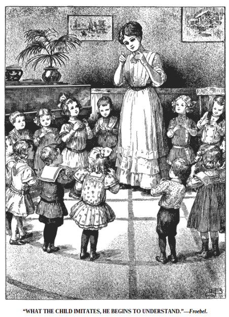 Drawing of teacher leading children in "Finger Plays" from Finger plays for nursery and kindergarten by Emilie Poulsson (1893)